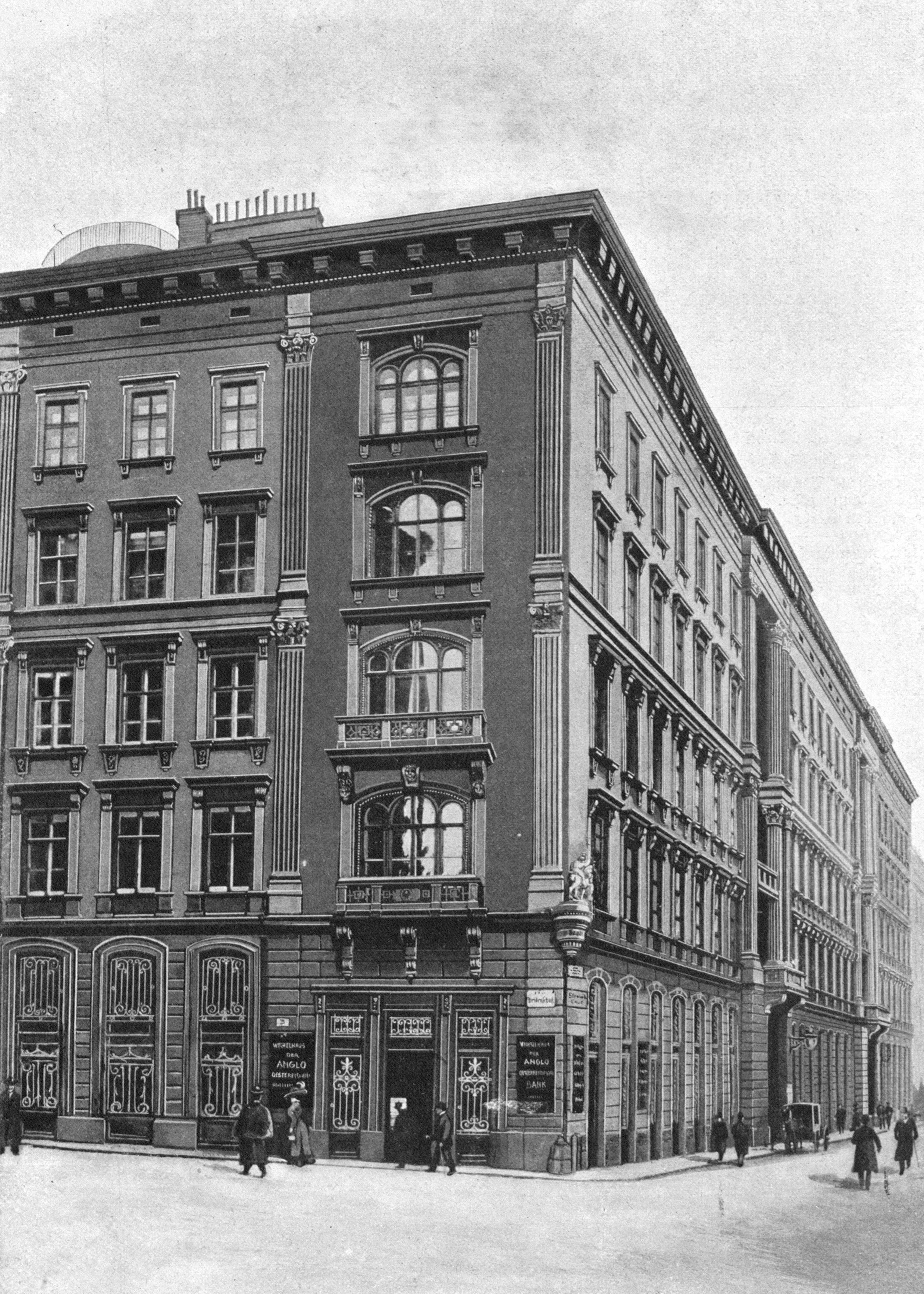 Headquarters of the Anglo-Oesterreichische Bank (Anglo-Austrian Bank), Strauchgasse 1 / Heidenschuss 3, 1010 Vienna